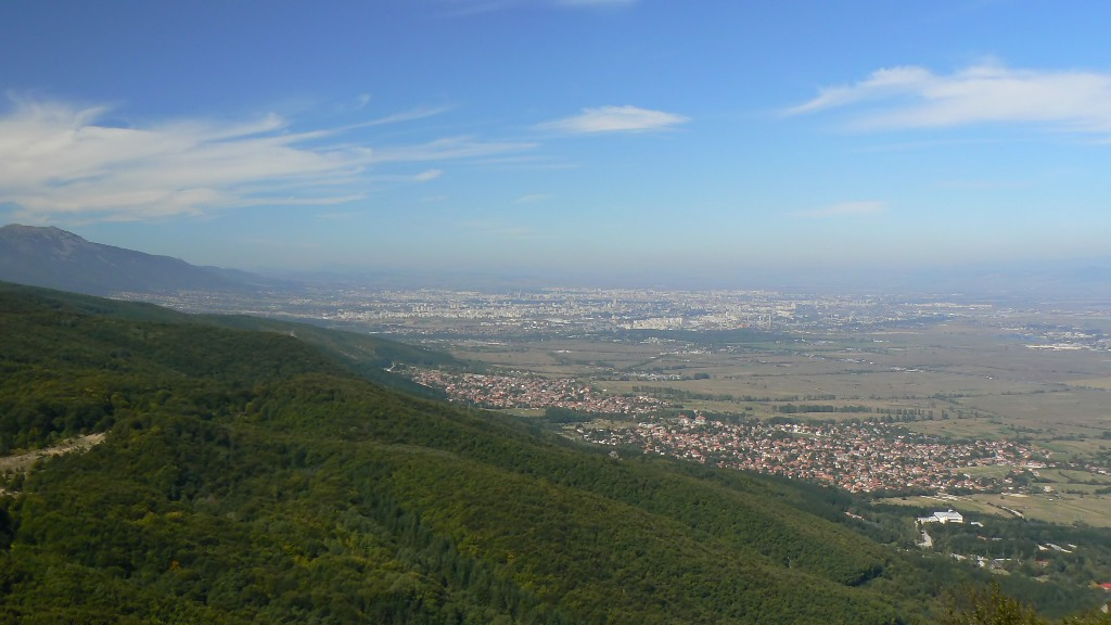 Lozenska mountain, village Lozen, Vitosha mountain and Sofia, as seen from peak Poluvrak